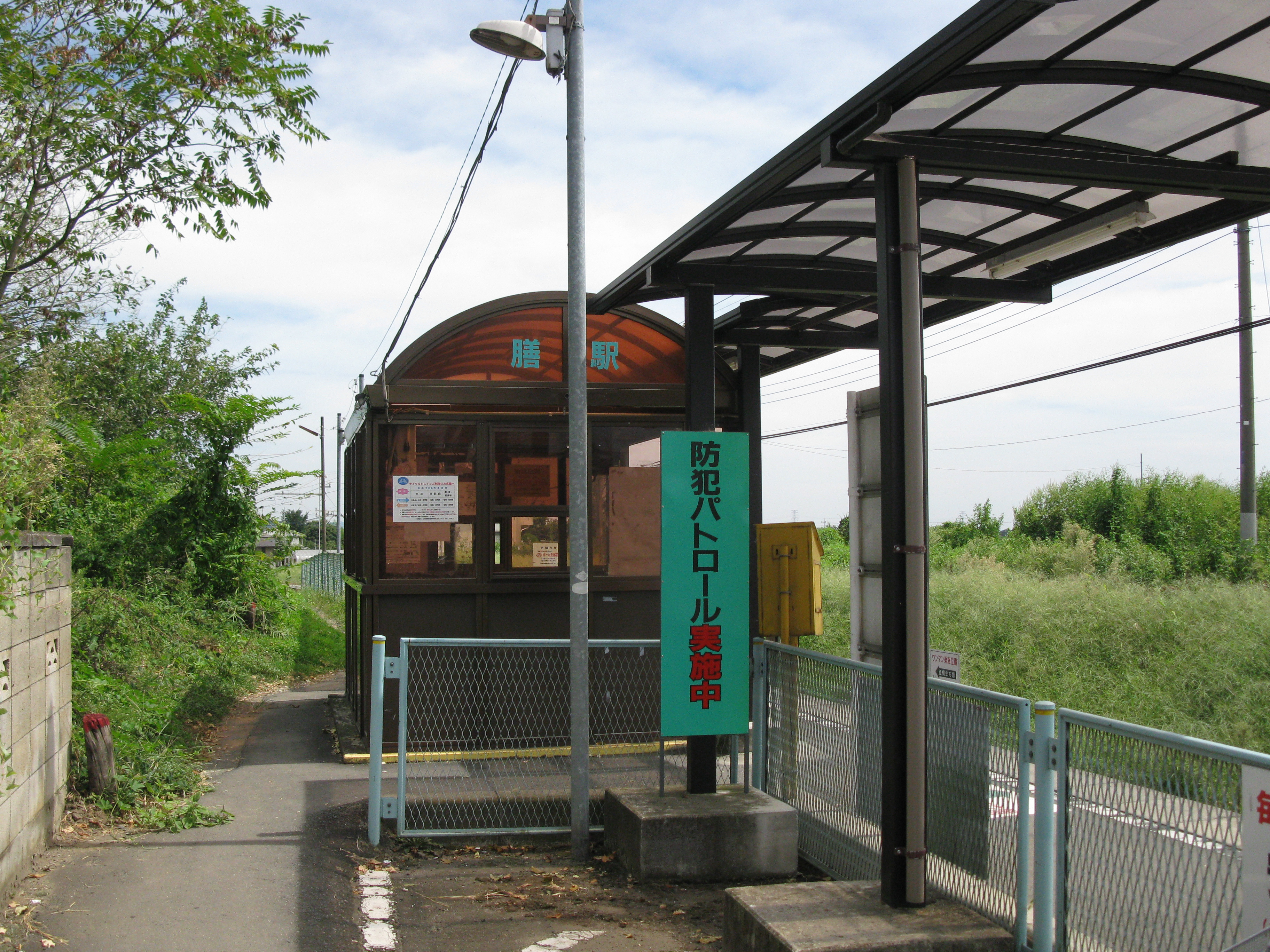 Zen Station entrance (Jōmō Electric Railway Company Jōmō Line)